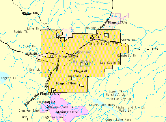 Flagstaff, Arizona